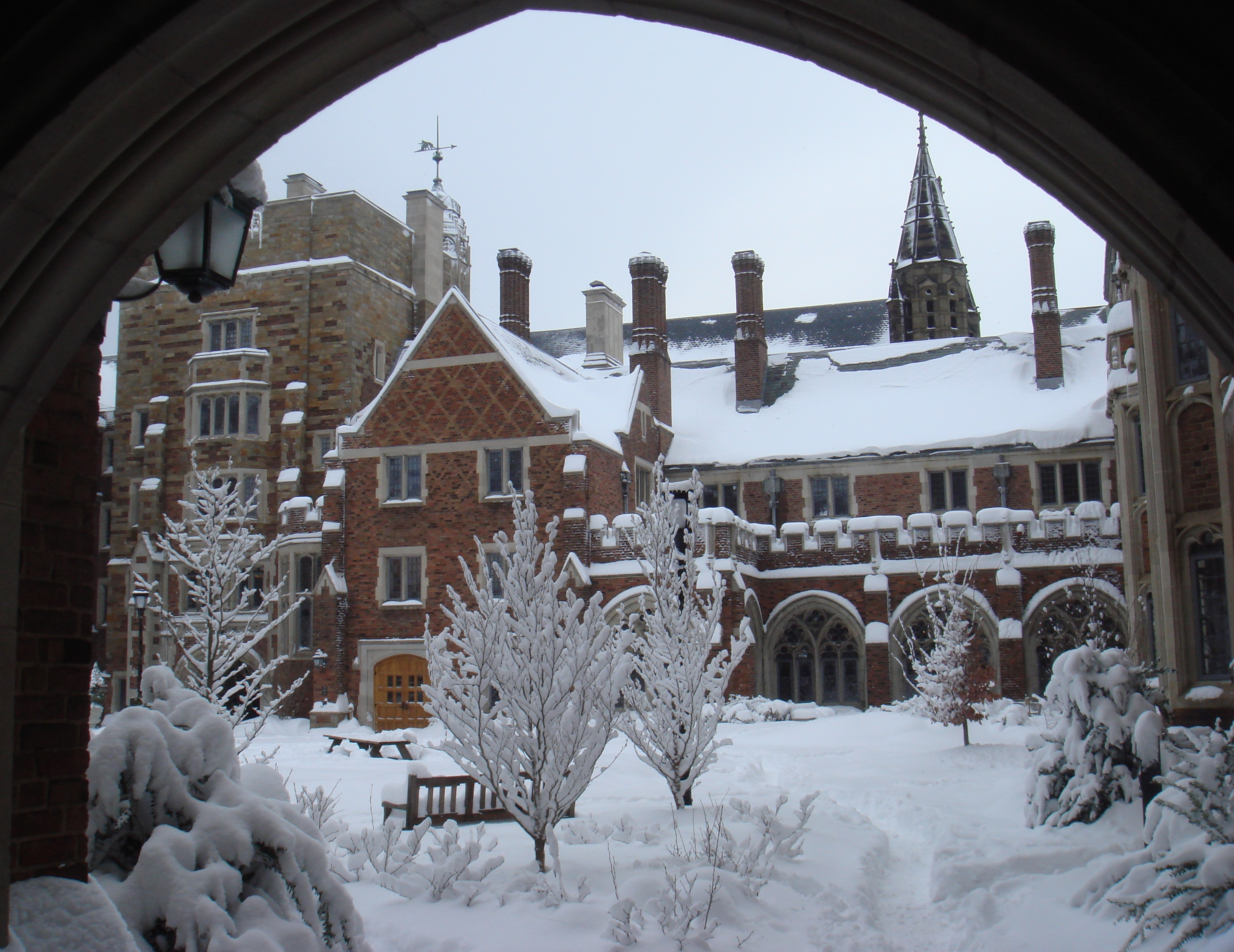 Calhoun College Yale